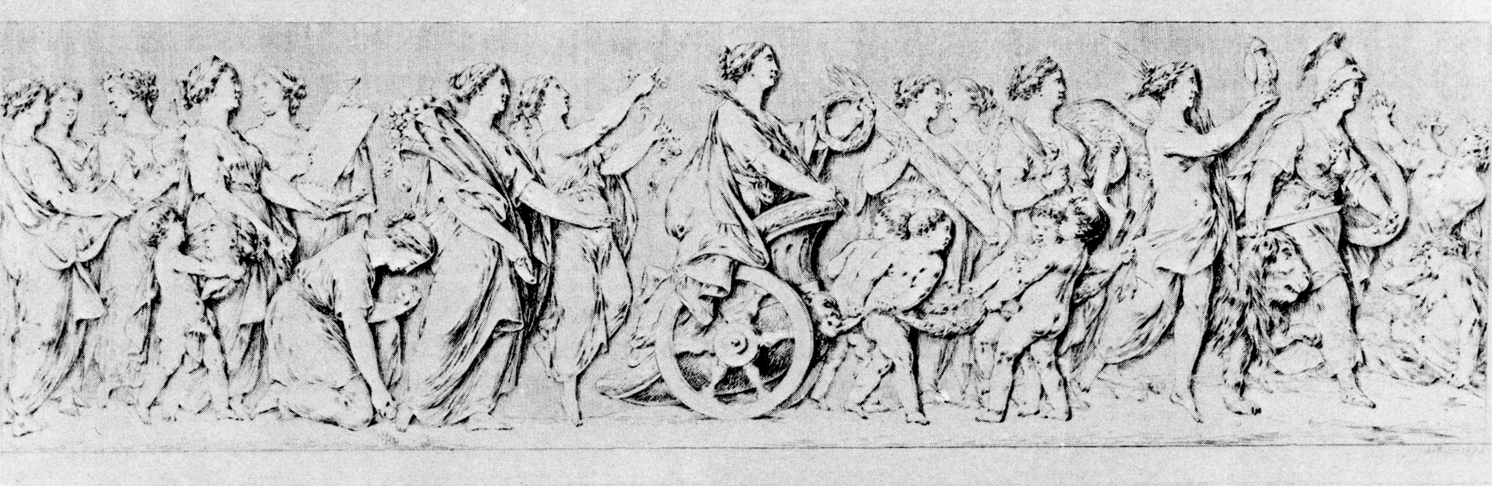 Entry of the Goddess of Peace, design by Bernhard Rode for the bas relief directly beneath the quadriga on the eastern face of the attic of the Brandenburg Gate. In the center, Peace – with an olive branch and laurel wreath in her hands – rides on a triumphal chariot drawn by four geniuses pulling on a garland of woven laurel. Proceeding before the chariot are Harmony, Friendship, Statesmanship, Victory, and Valor, before whom Discord flees. The chariot is followed by Joy (dancing and with a rose belt in her hands), Abundance (from whose cornucopia fallen fruits are gathered), Architecture, Painting, Sculpture, and Higher Learning alongside Music and Poetry, distinguishable because of the recognizable symbols they hold.